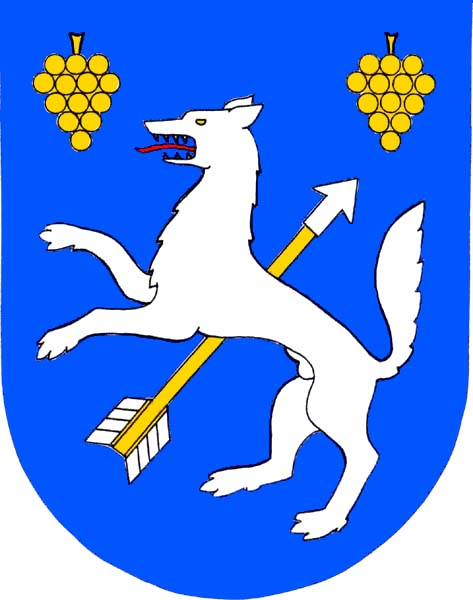 Municipal coat of arms of Vlkoš village, Hodonín District, Czech Republic.